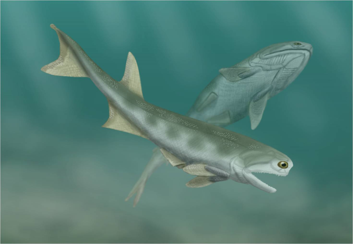 Life restoration of Cheirolepis trailli. Based on reconstruction found here taken from Pearson, D. M. and Westoll, T. S. (1979). "The Devonian actinopterygian Cheirolepis Agassiz". Transactions of the Royal Society of Edinburgh 70:337-399.